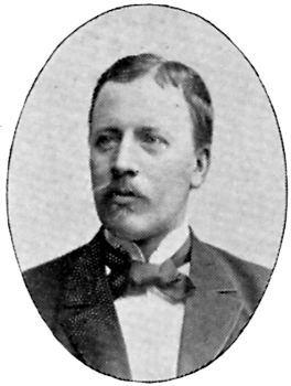 Image scanned from the book "Svenskt Porträttgalleri XX - Arkitekter, Bildhuggare, Målare m.fl. " ("Swedish Portrait Gallery XX - Architects, Sculptors, Painters, ") published 1901